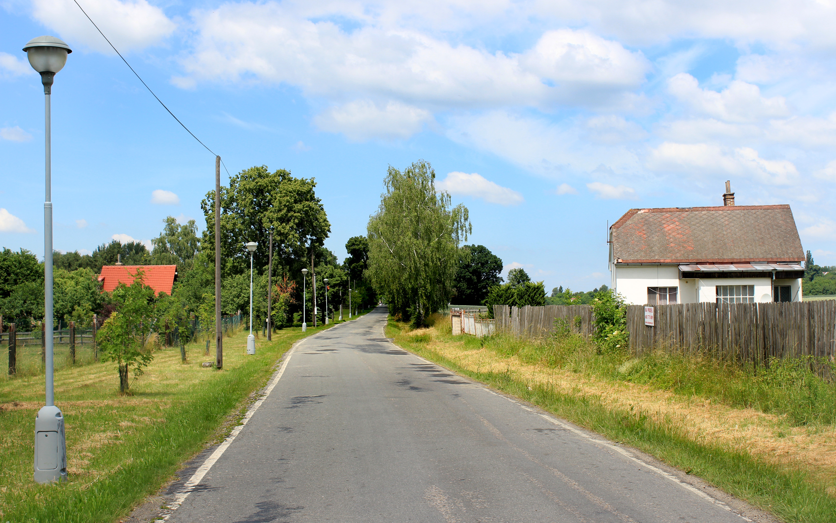 Road No. 279 in Rabakov, Czech Republic.